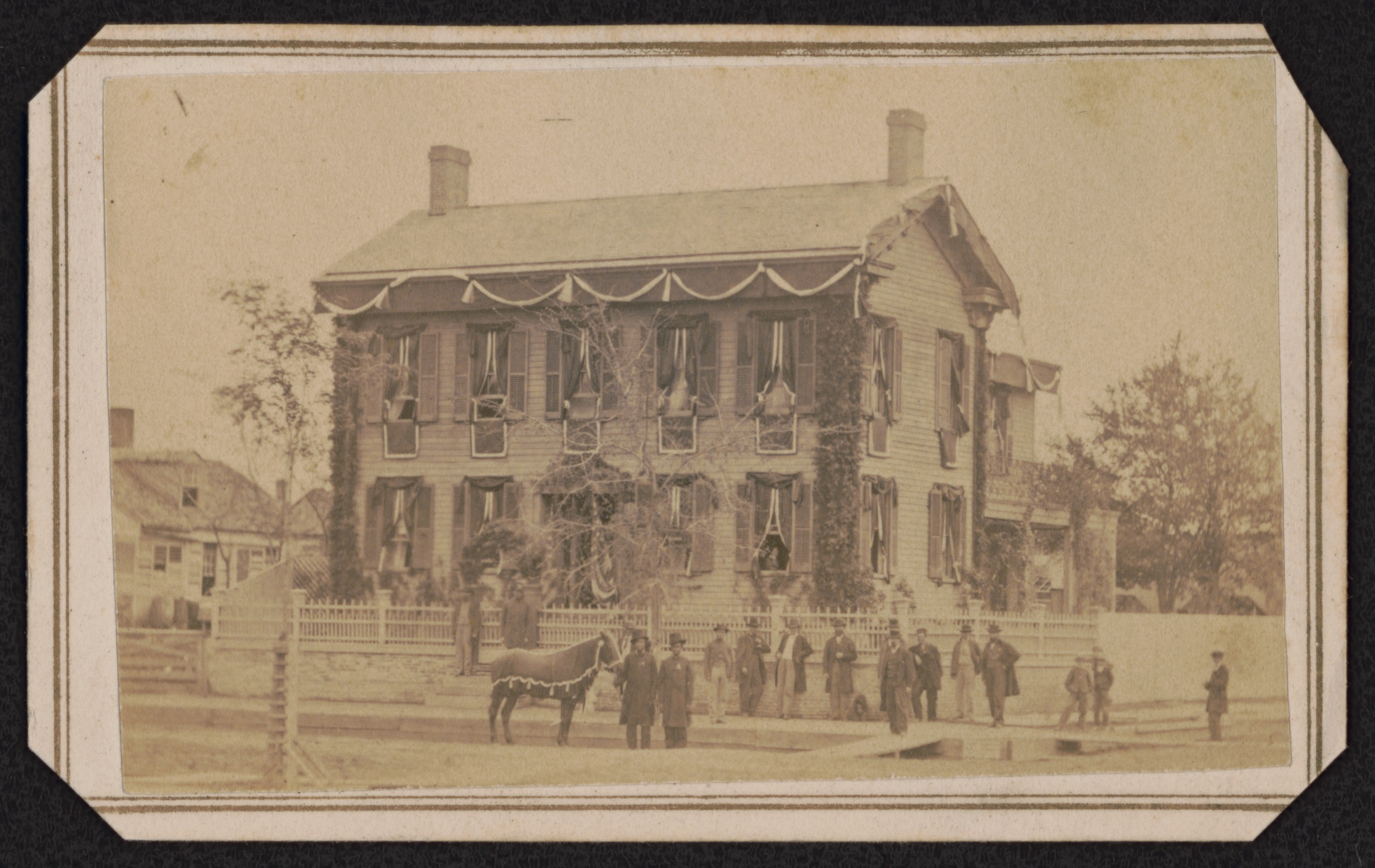 Title: Lincoln's house draped in mourning with his horse "Old Robin" in front, Springfield, Illinois Abstract/medium: 1 photograph : albumen print on card mount ; mount 7 x 11 cm (carte de visite format)